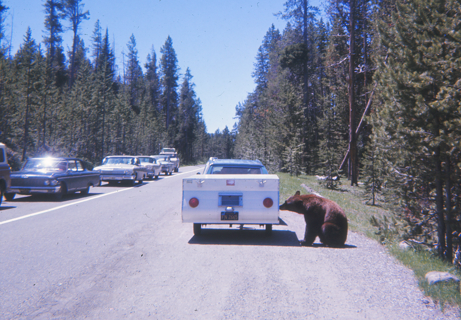 An American black bear approaching a vehicle on one of the main roads of Yellowstone National Park. A common sight at the time, in the years before efforts were made to keep bears and humans more distant.